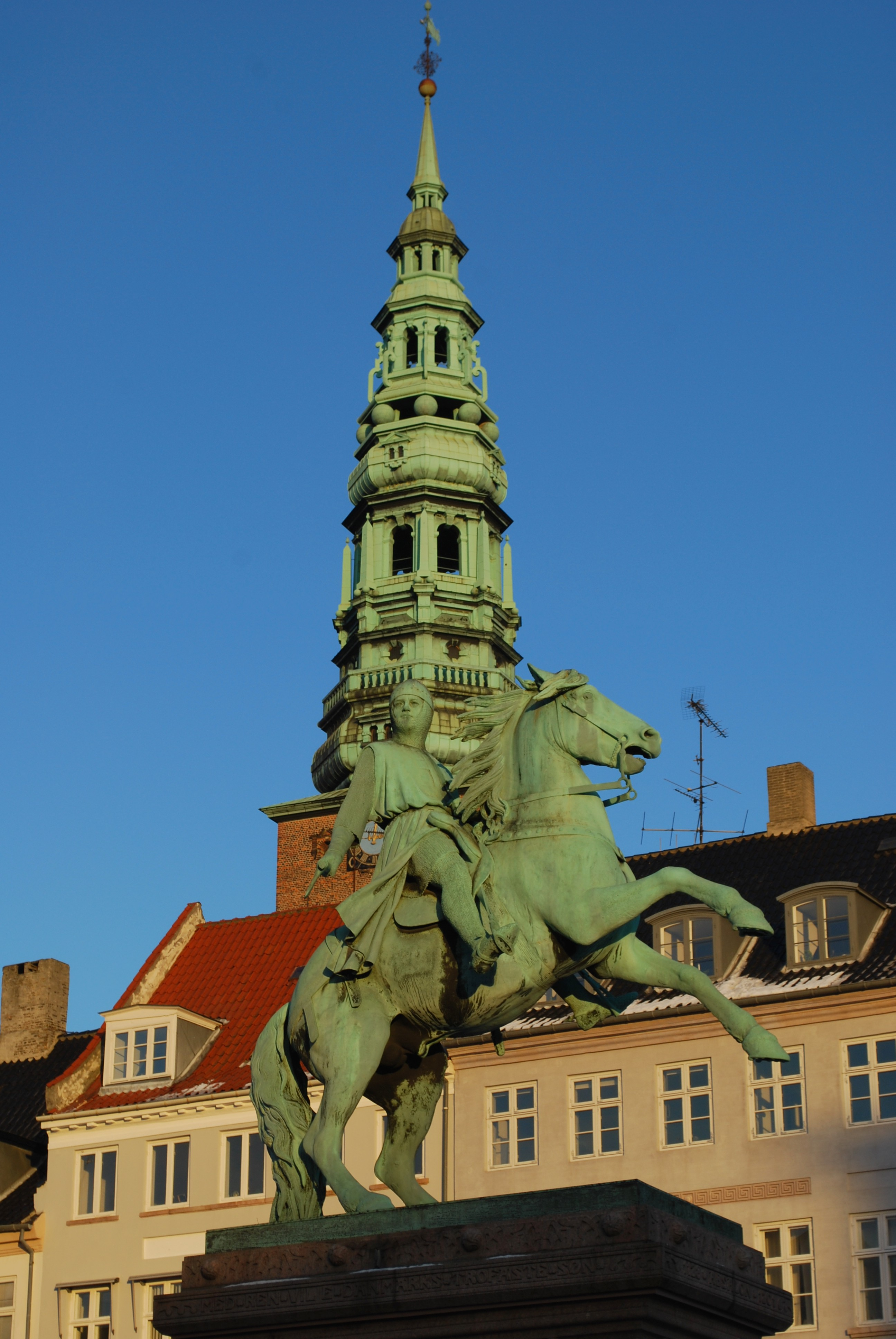 Statue of Absalon, Højbro Plads, Copenhagen